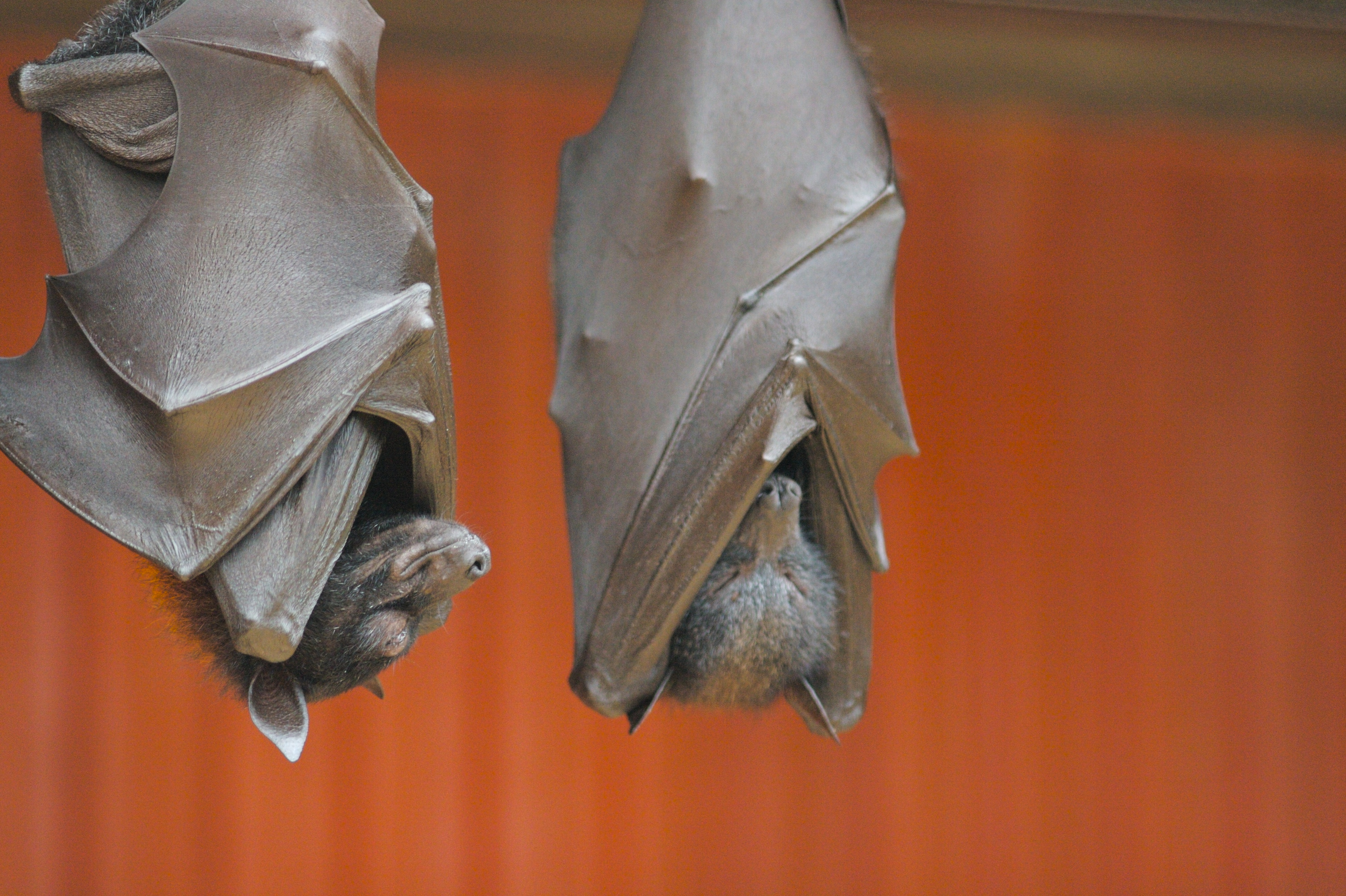 Two flying foxes at Columbus Zoo. Taken by User:Poplinre of Flickr, license is CC Attribution-Share Alike 2.0 Generic.